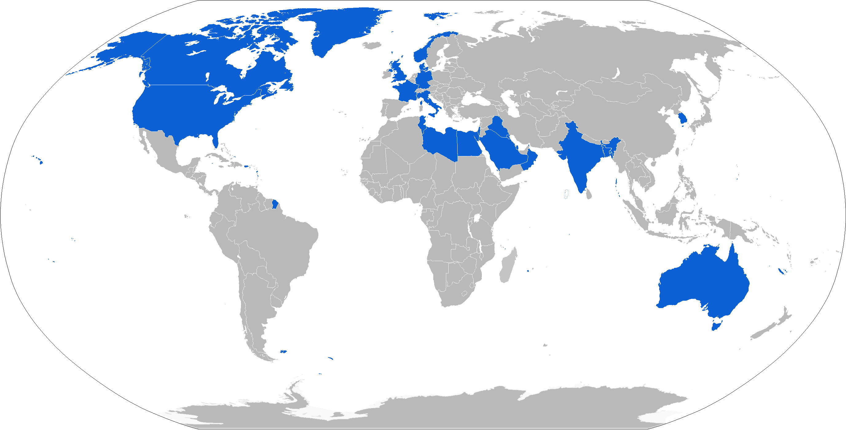 Map with C-130J Super Hercules operators in blue